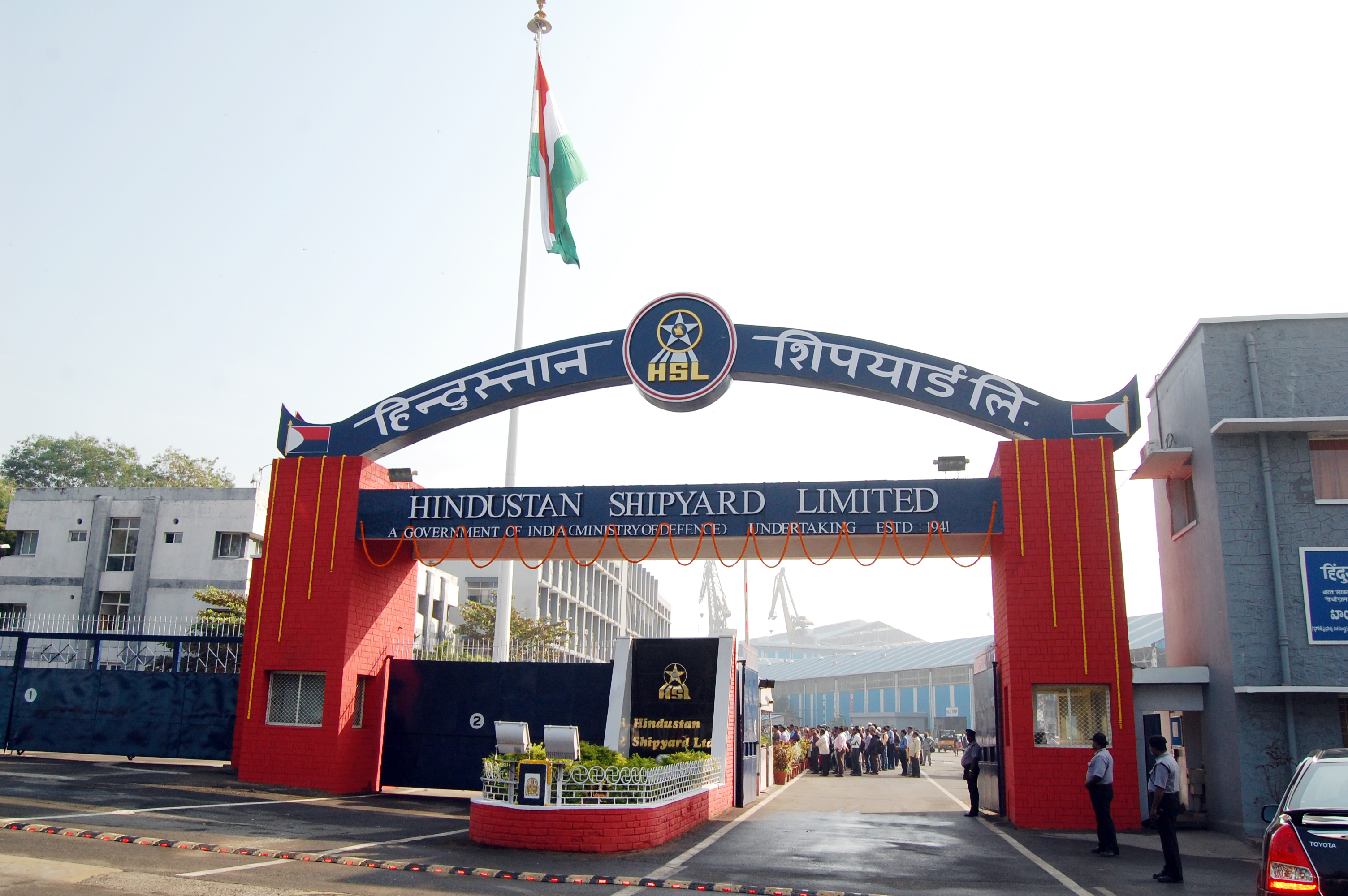 Hindustan Shipyard builds ships and submarines